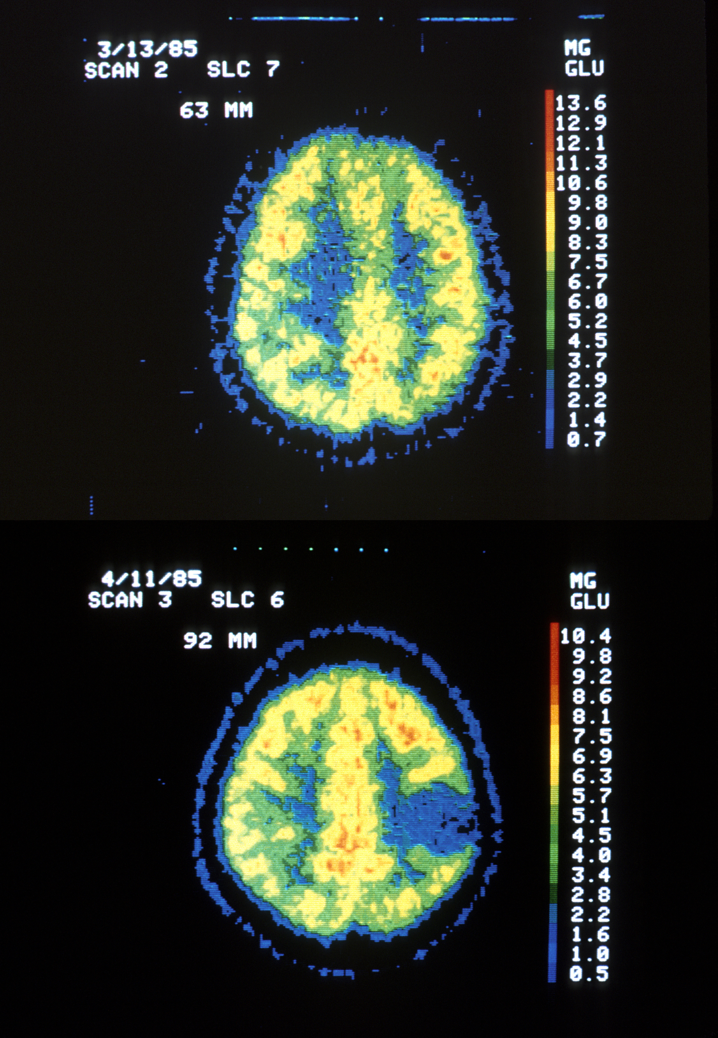 Two images - one showing a normal PET scan, the other showing astrocytoma